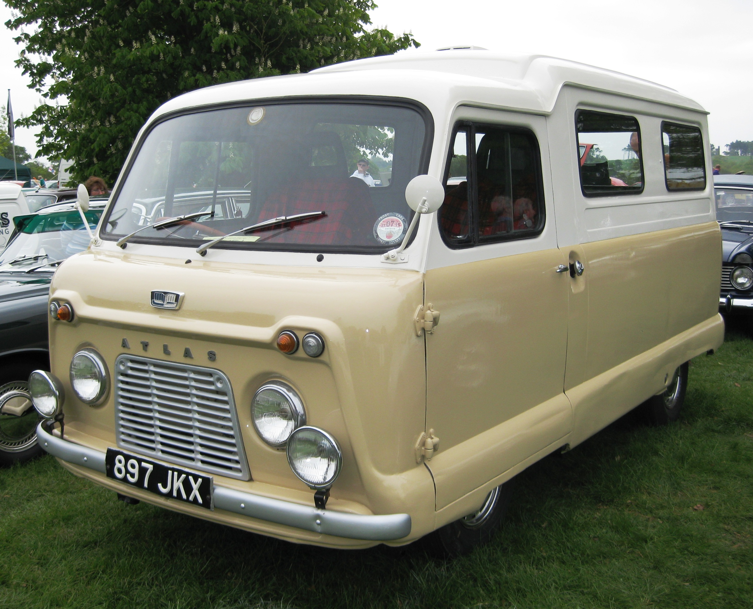 Atlas van at Weston Park Transport Fair